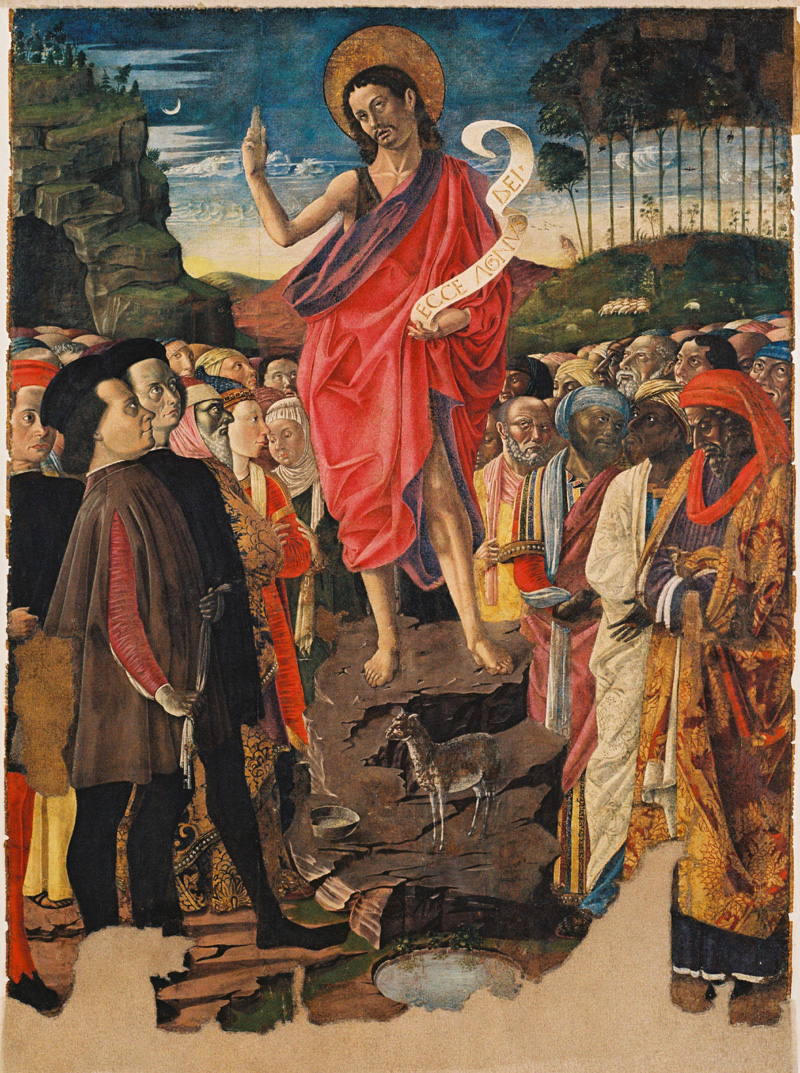 claimed to be "Jesus blessing Sophia Palaiologina and Basilios Bessarion before their departure from Italy to Russia"